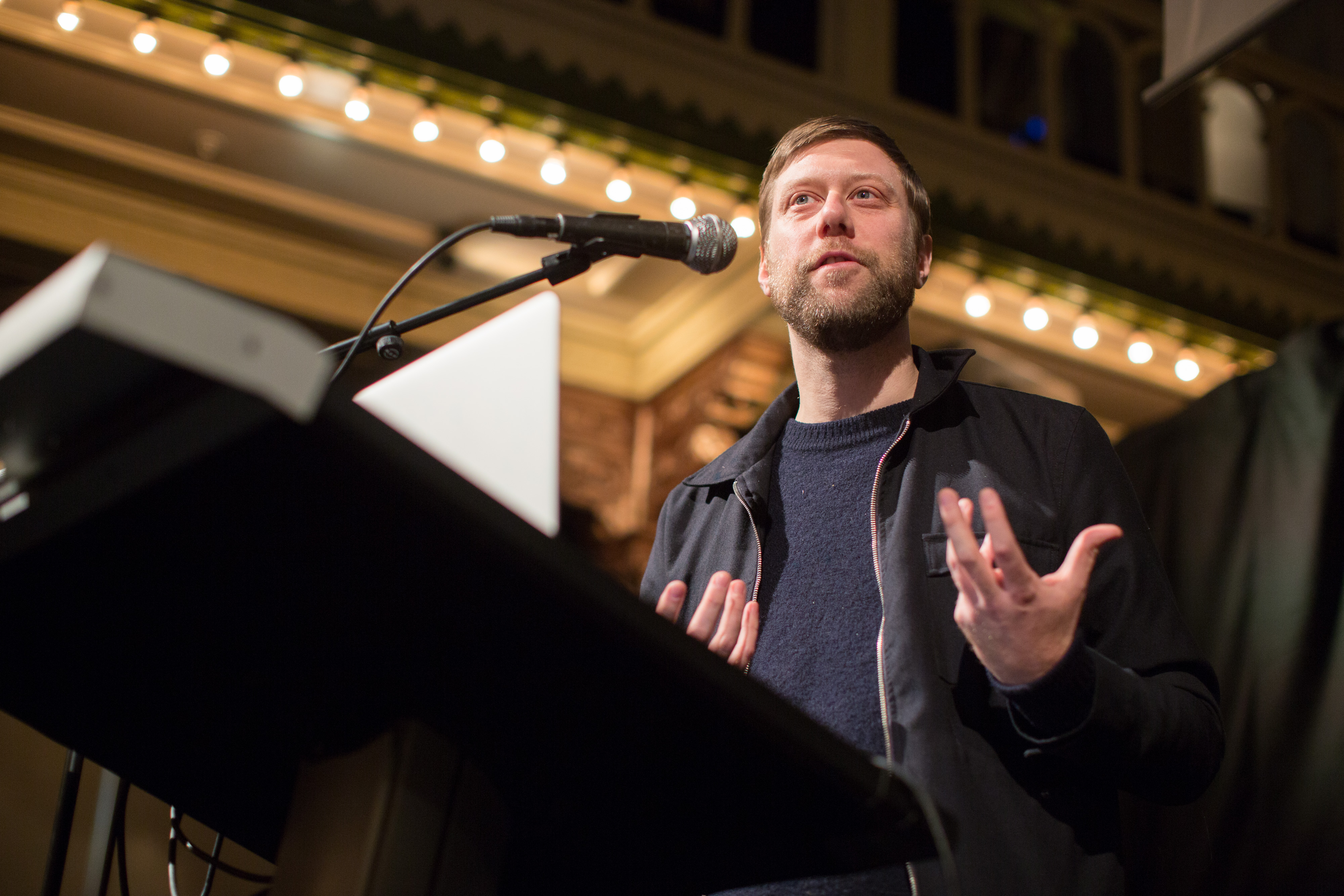 The Crypto Design Challenge was a shout out to artists, designers and researchers to create new conceptualizations of the deep web: the hidden realm that contains an estimated 96% of all the content to be found circulating online. The winners of the Crypto Design Awards were announced during this event.